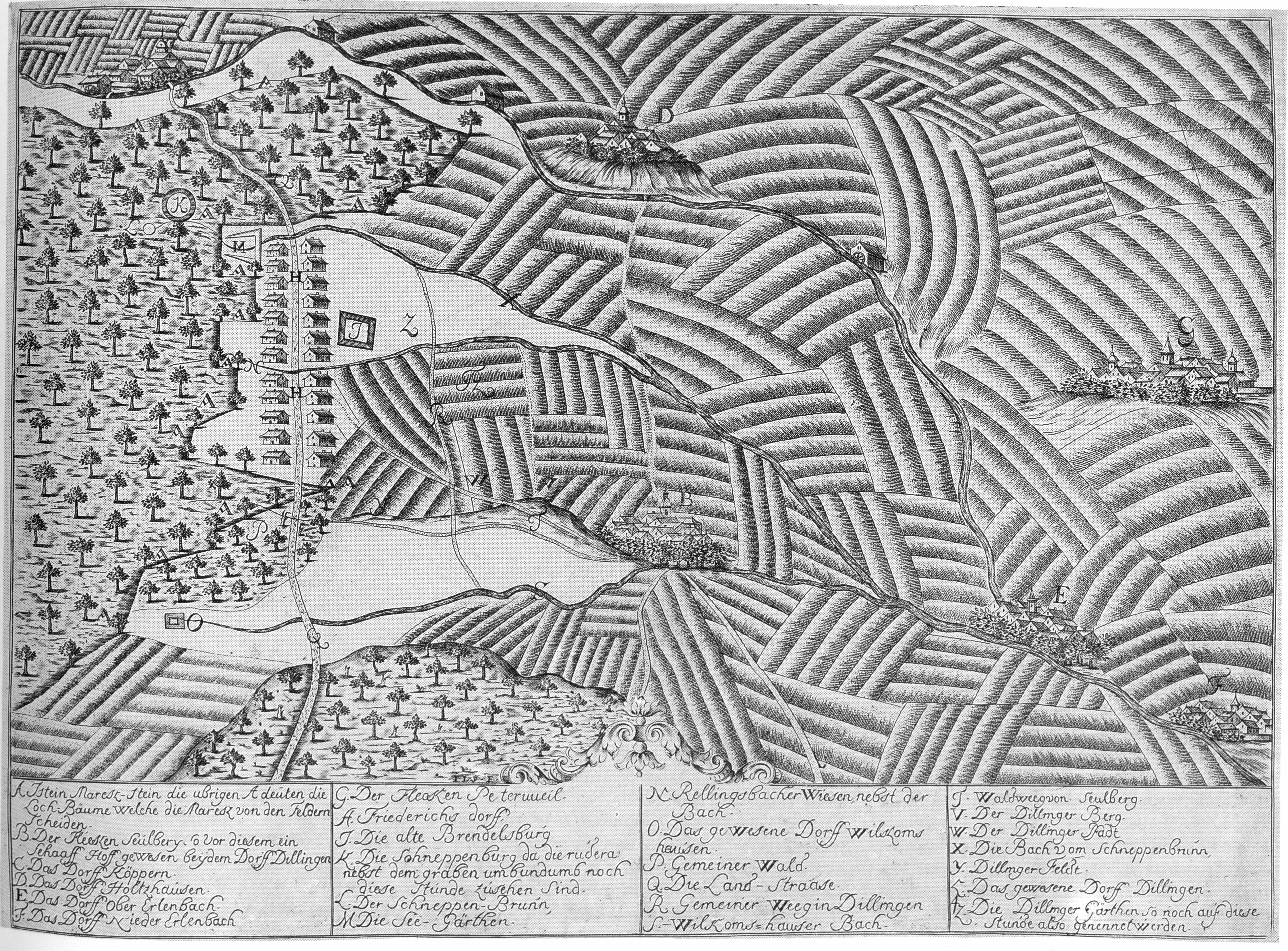 Map of the Seulberg-Erlenbach march from 1715